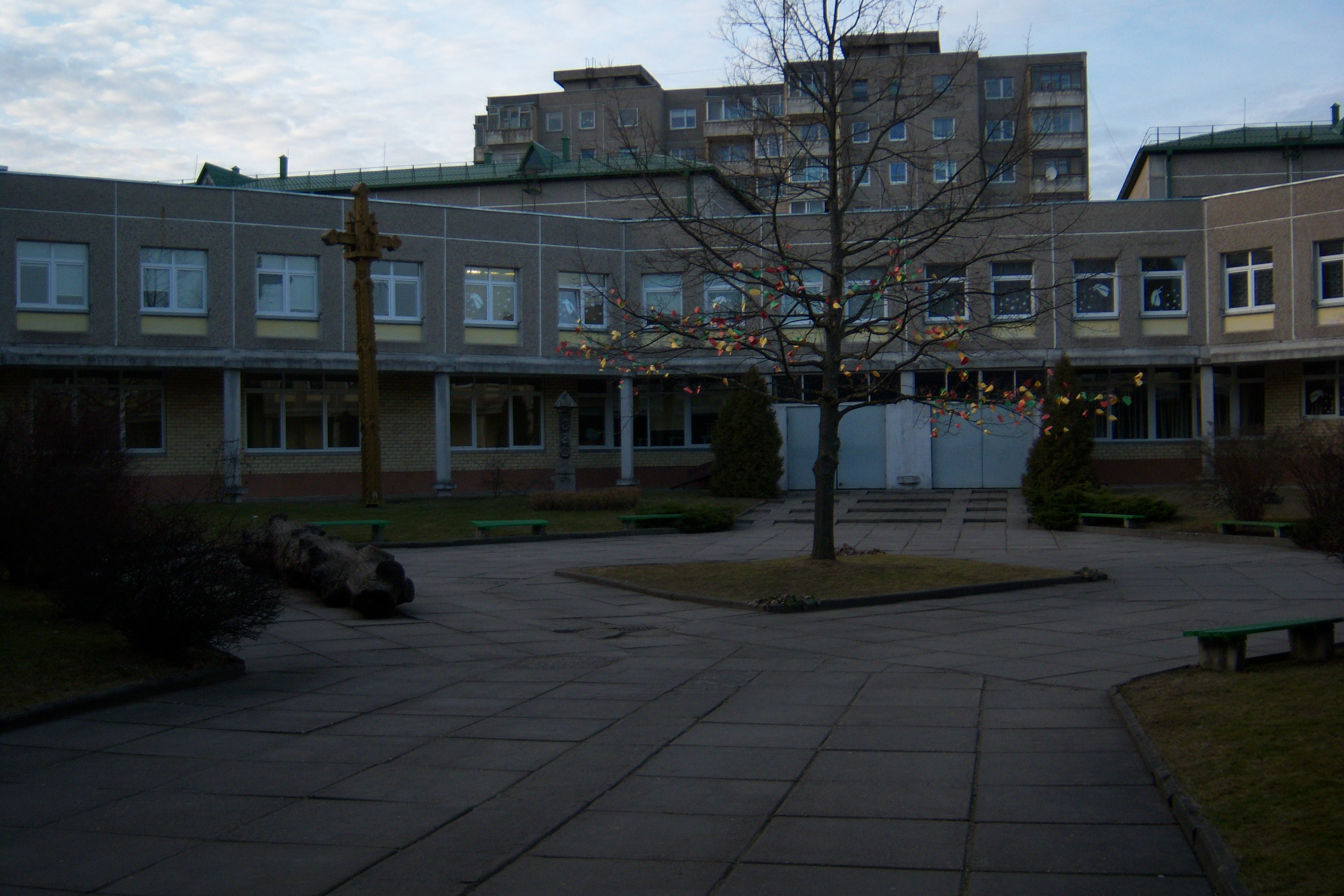 Gymnasium of John Paul II, Kaunas, Lithuania